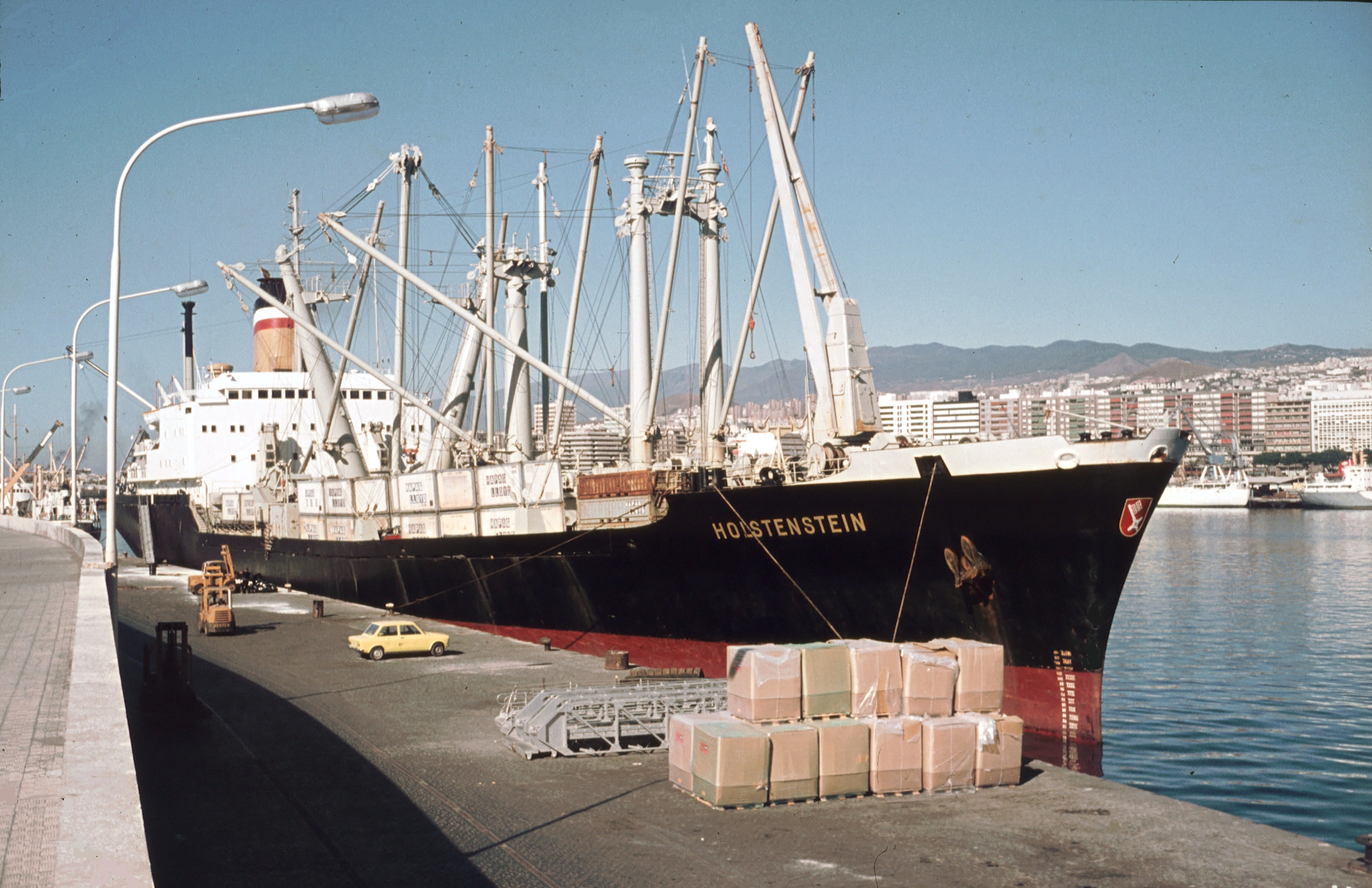 Hapag-Lloyd Cargo ship Holstenstein 1977 in the port of Santa Cruz de Teneriffa